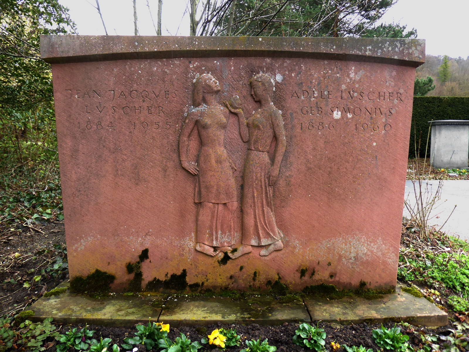 (Johann Jakob Lüscher ) Jean Jacques Lüscher-Simonius (1884–1955), Kunstmaler, Zeichner und Lithograf. Adele Lüscher-Simonius (1896–1960) Grab auf dem Friedhof am Hörnli